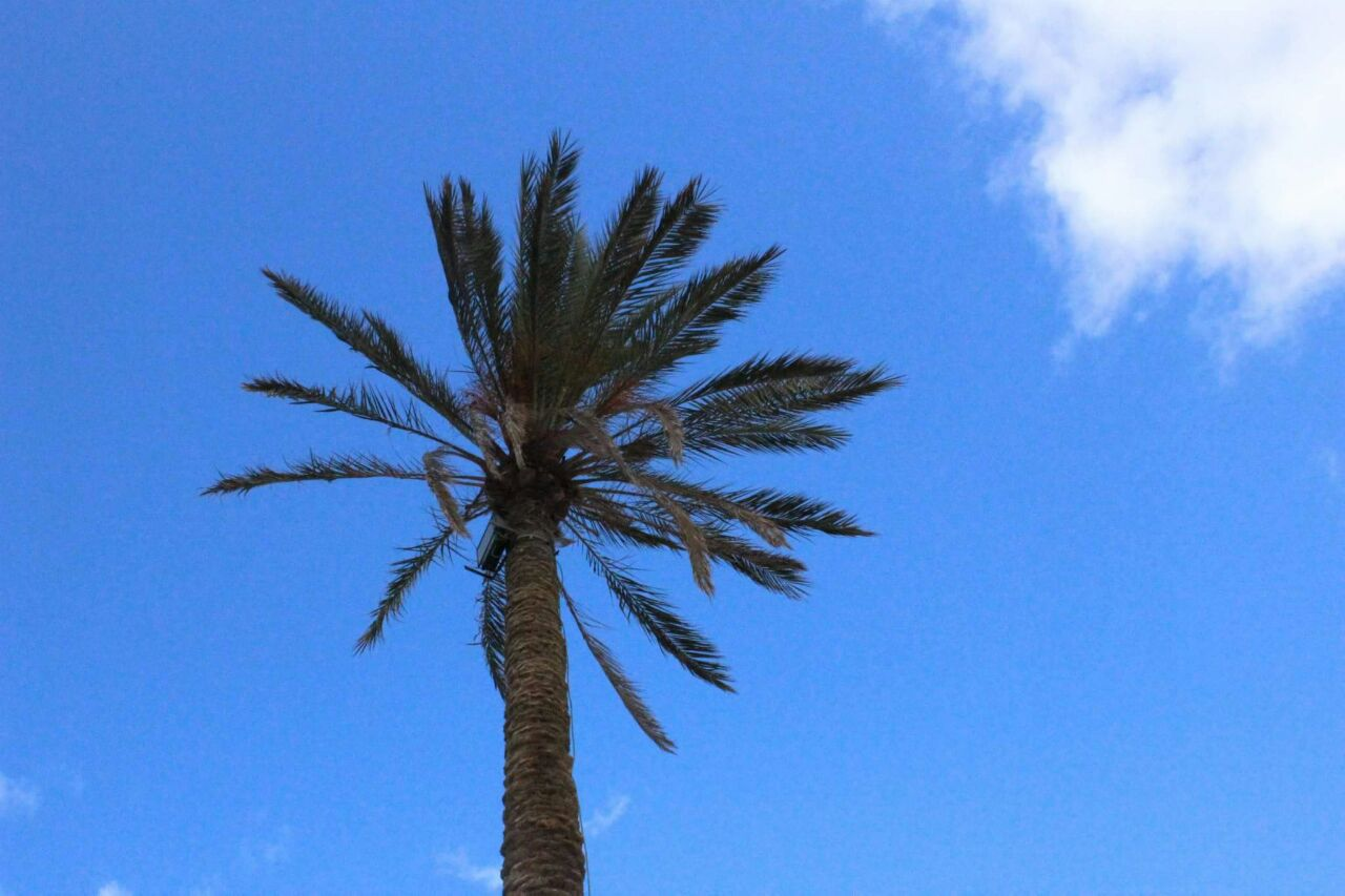 עץ דקל